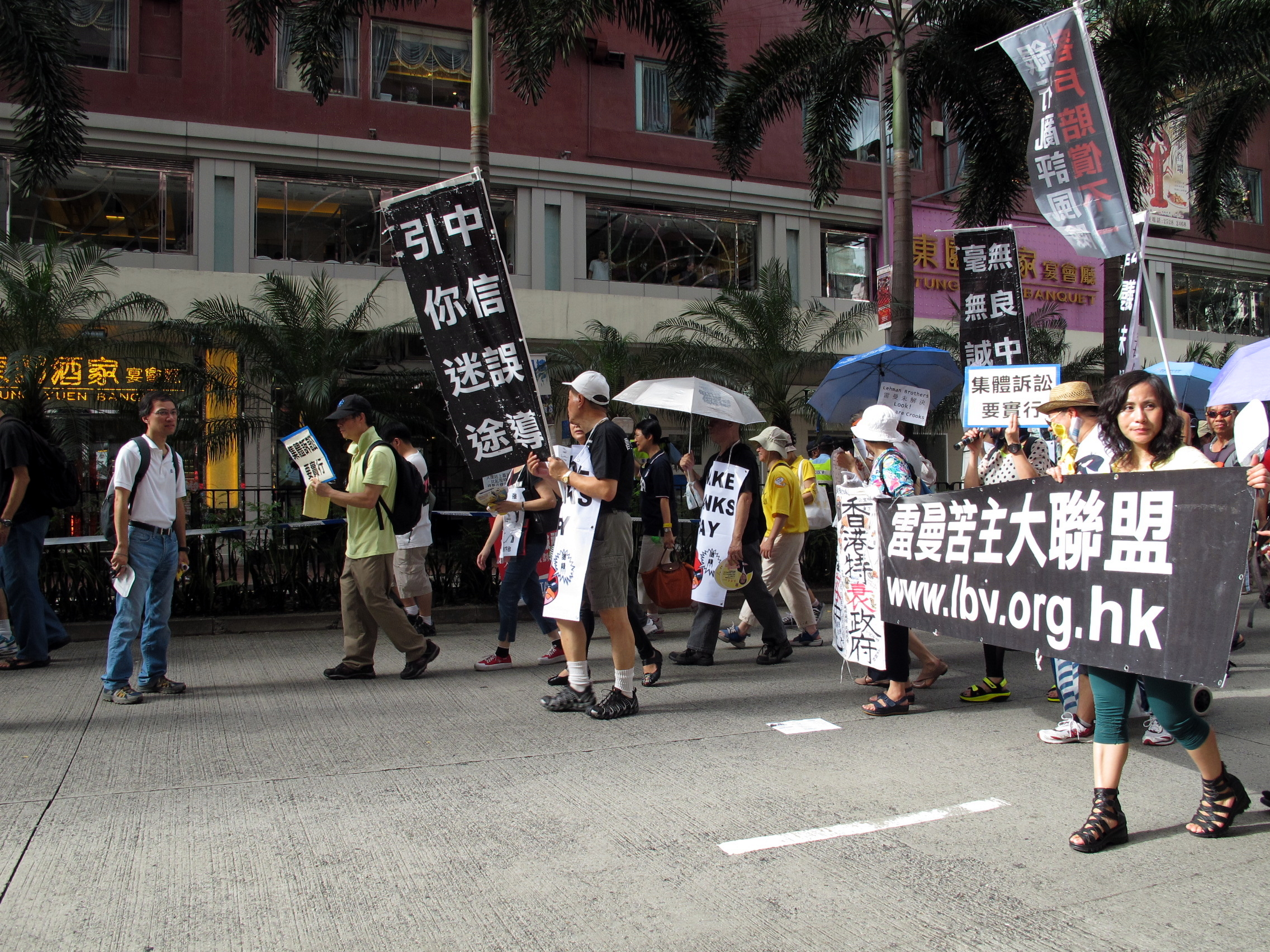 July 1 march in Hong Kong-Bankruptcy of Lehman Brothers